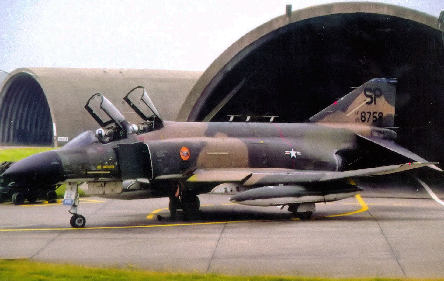 23d Tactical Fighter Squadron McDonnell F-4D-32-MC Phantom 66-8758 Spangdahlem AB, West Germany, 1978. Sold to Republic of Korea in 1987